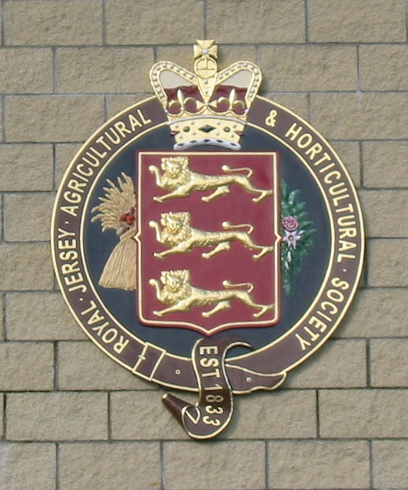 Coat of arms of Royal Jersey Agricultural and Horticultural Society at Royal Jersey Showground, Trinity, Jersey